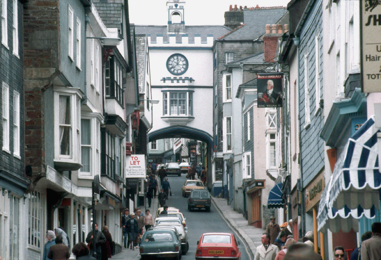 Town of Totnes, located in the county of Devon/GB, Fore Street & High Street; features the original Eastgate before it was destroyed by fire in 1990.